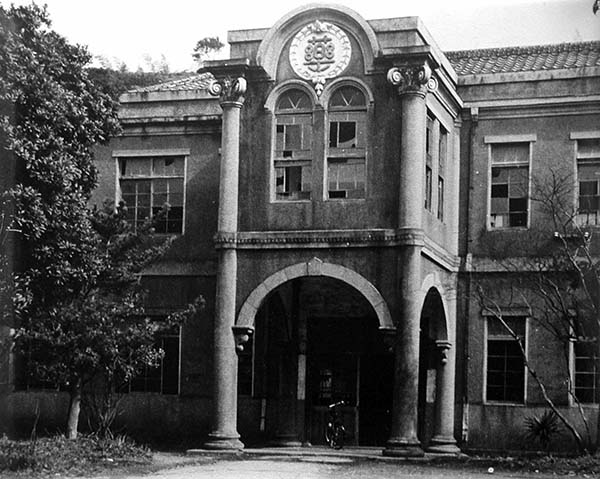 The Main Building of Shizuoka Women's School of Pharmacy was completed in Shizuoka City, Shizuoka Prefecture on 1930.